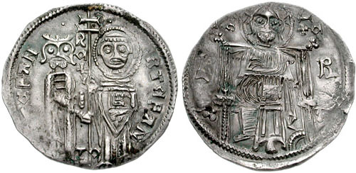 Coins of Stefan Uroš III